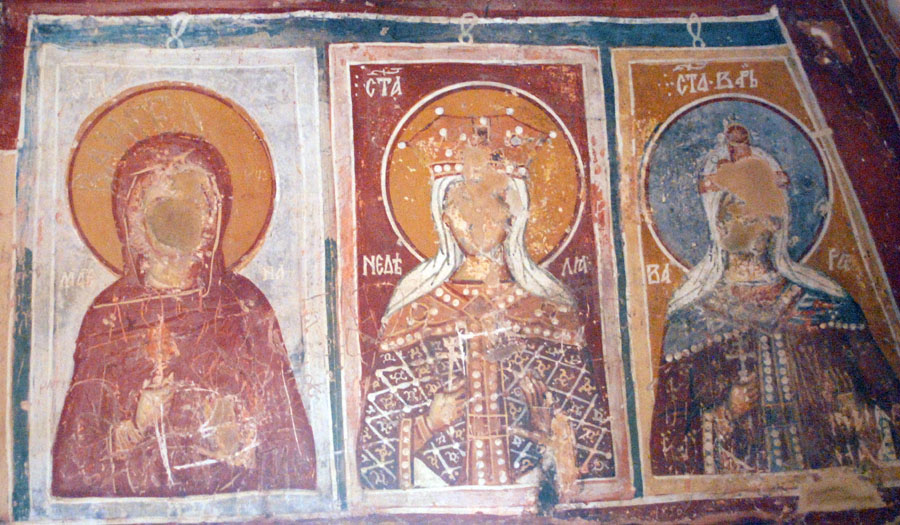 Frescos in St. Athanasius Church, Macedonia